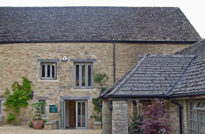 Subject: Restored tithe barn at Calcot. Photographer : Self